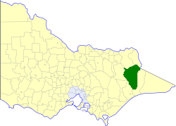 Location of the Shire of Omeo within Victoria.